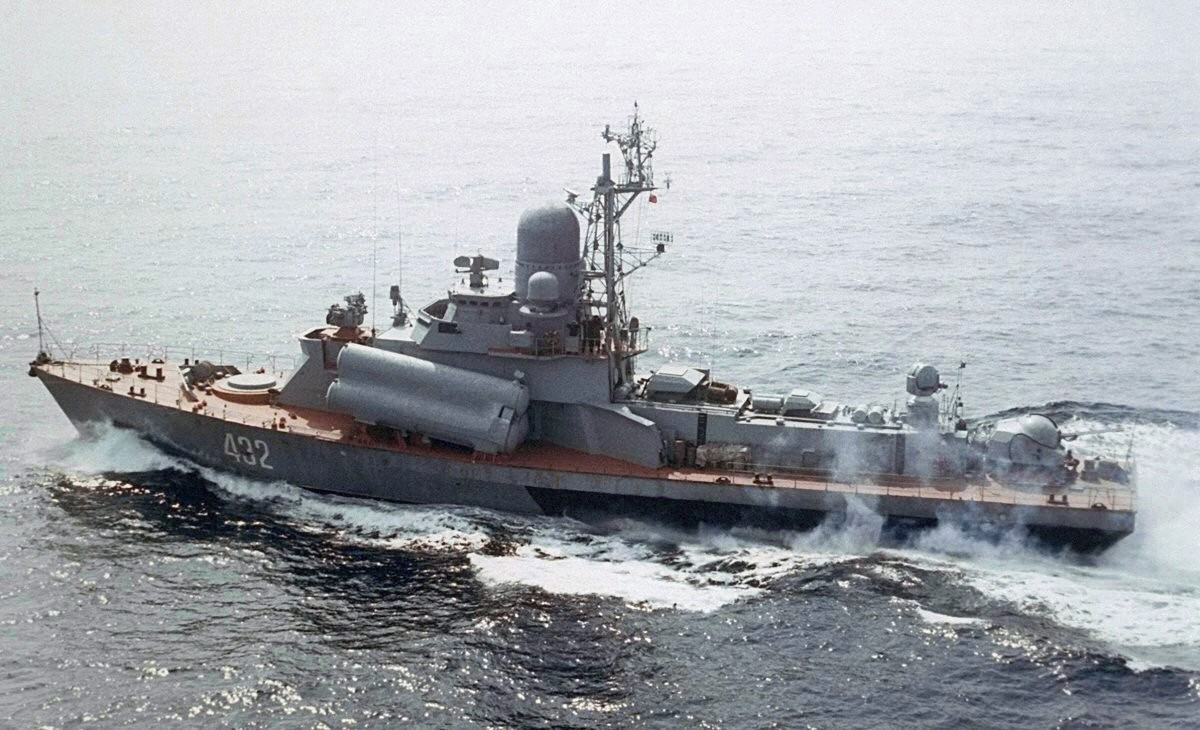 A port beam view of a Soviet Nanuchka-I (Project 1234) Class guided missile corvette underway. (MRK "Вихрь", (eng.: "Vikhr", meaning "Whirlwind"), Soviet Pacific Fleet)